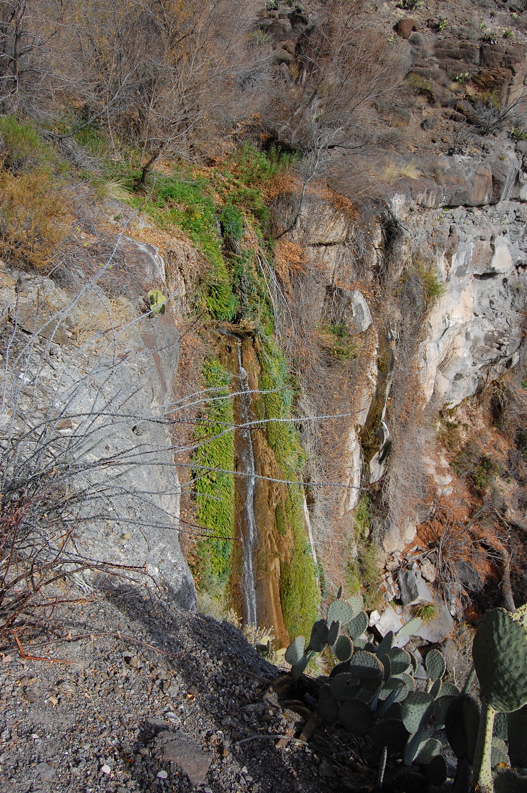 Madrid Falls, the 2nd tallest waterfall in Texas. Located in Big Bend Ranch State Park. Latitude: 29.379791000° Longitute: -103.884208000°